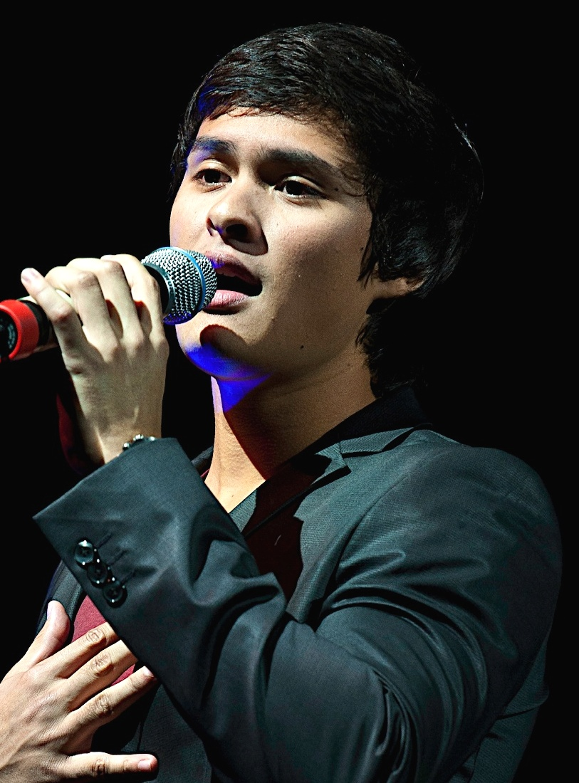 Matteo Guidicelli performing at the KC Concepcion US Concert in November 12, 2010.